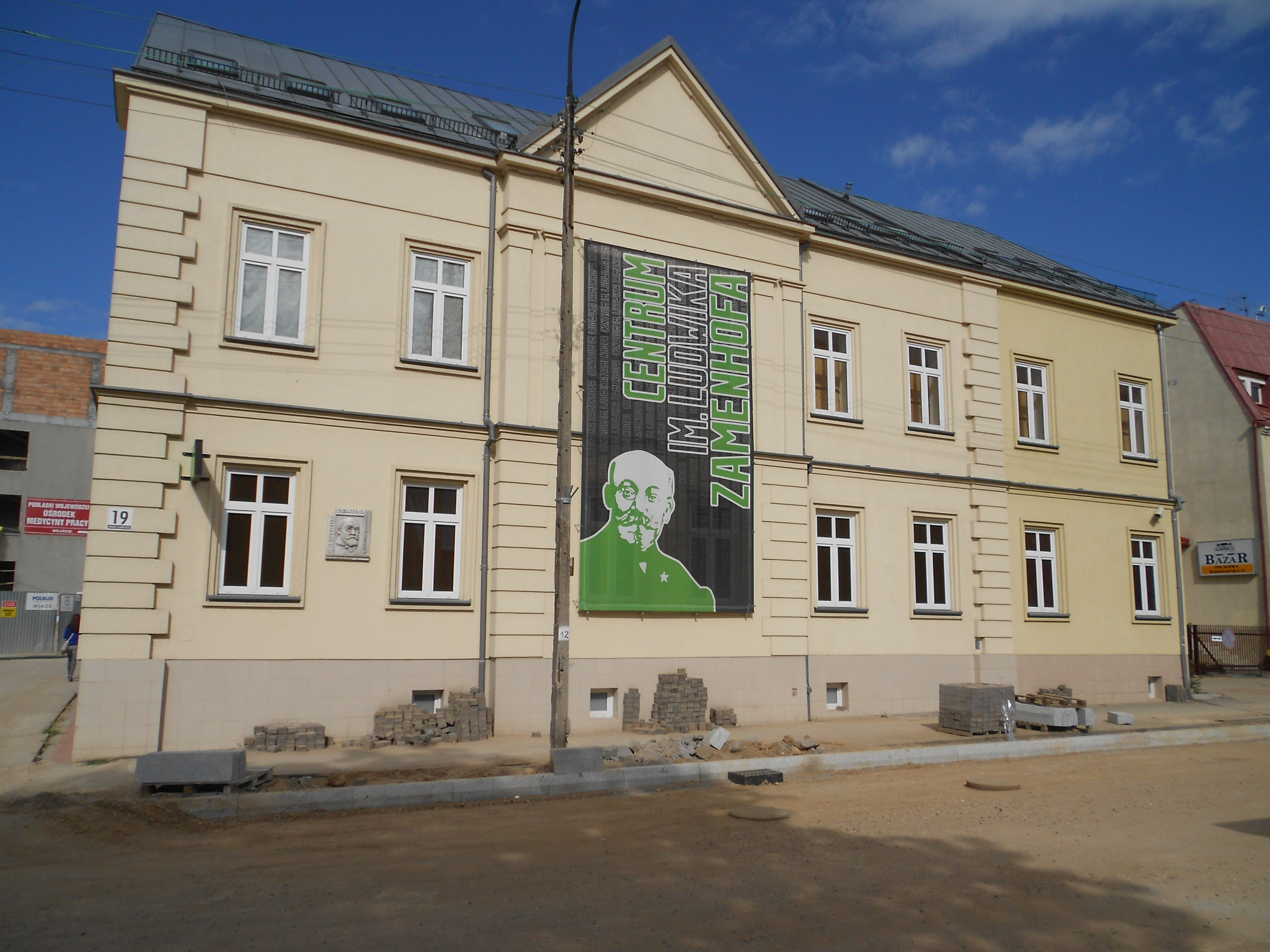 The Ludwik Zamenhof Center in Białystok at Warszawska 19 street